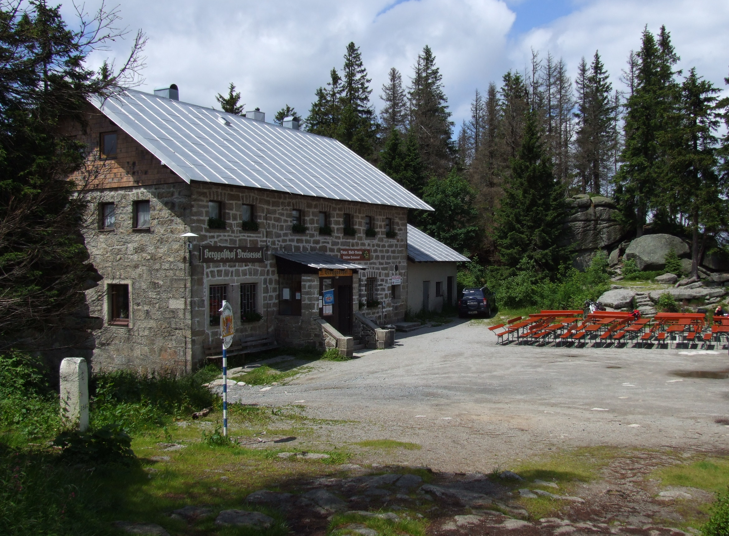 Mountain hostel Berggasthof Dreisessel, Dreisesselberg/Třístoličník , Bavaria/Czech Republic